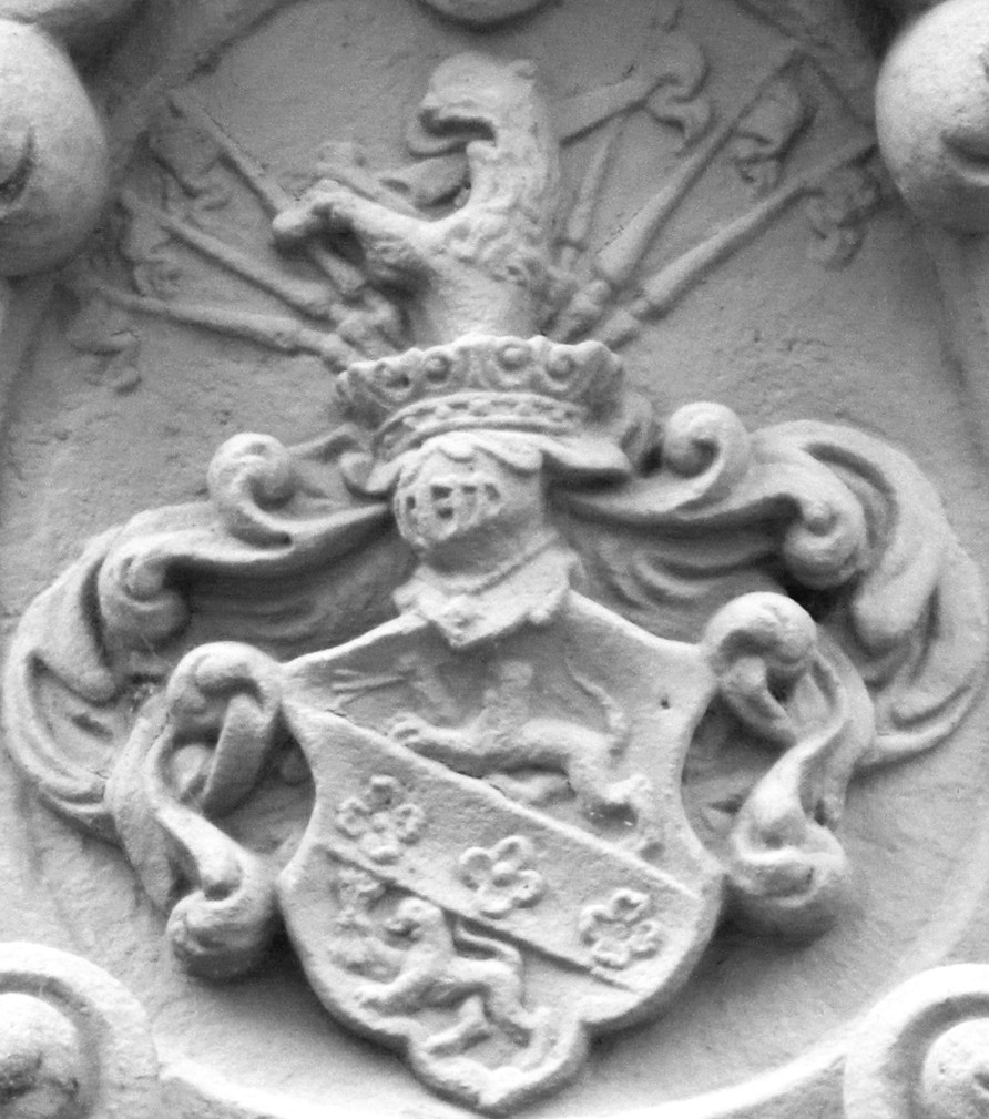 Coat of arms of Segner family, Segner's house, Michalská street, Bratislava. For coat of arms of Segner see also Siebmacher: Ungarn, p. 574, Tab. 409.